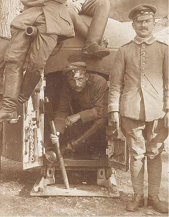 Fahrpanzer Besatzung